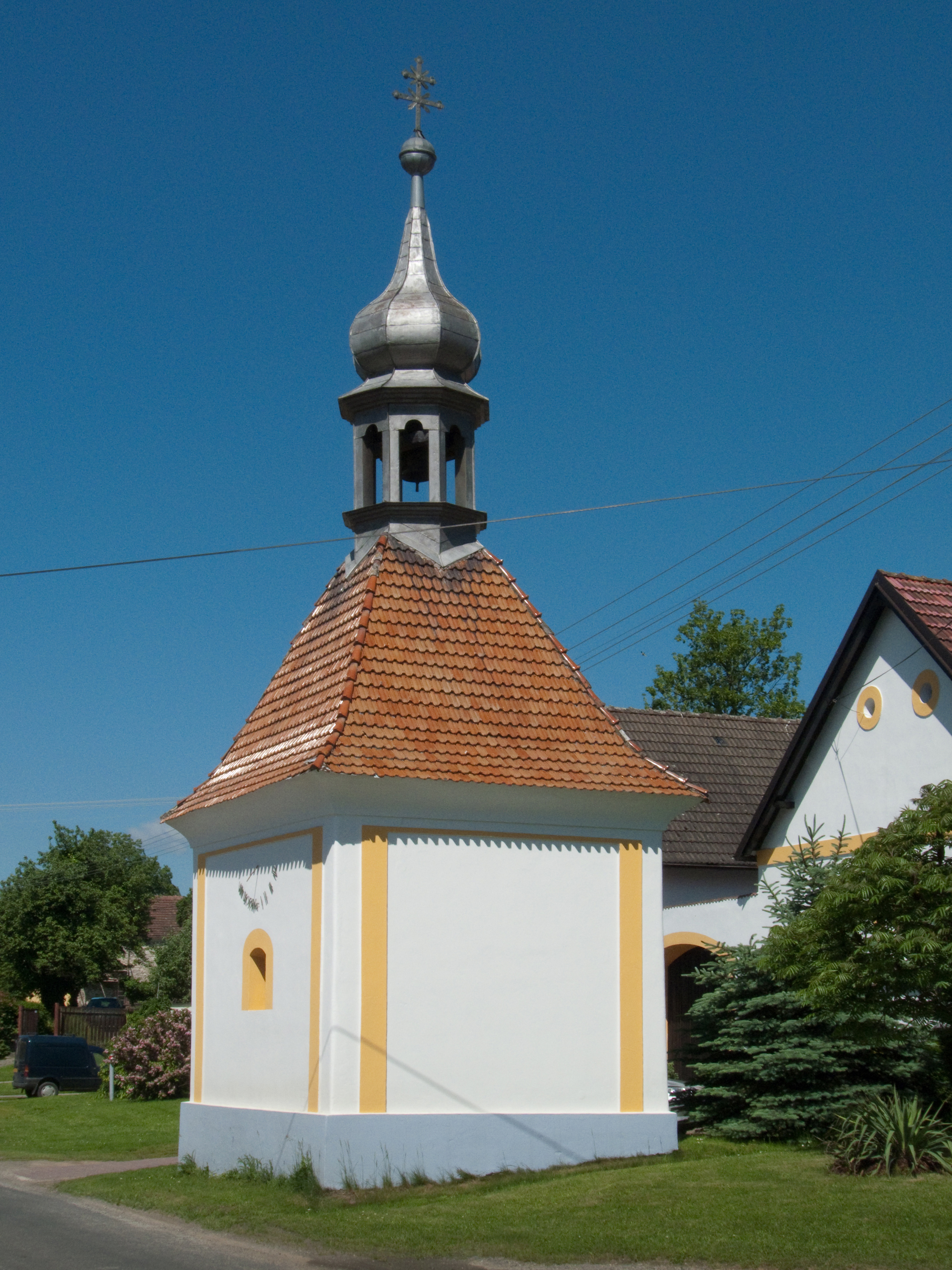 Saint Florian Chapel in the village of Chlebov, Tábor district, Czech Republic